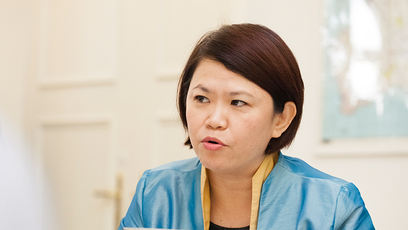 Penny Low speaking at Horasis Global China Business Meeting 2019 in Las Vegas